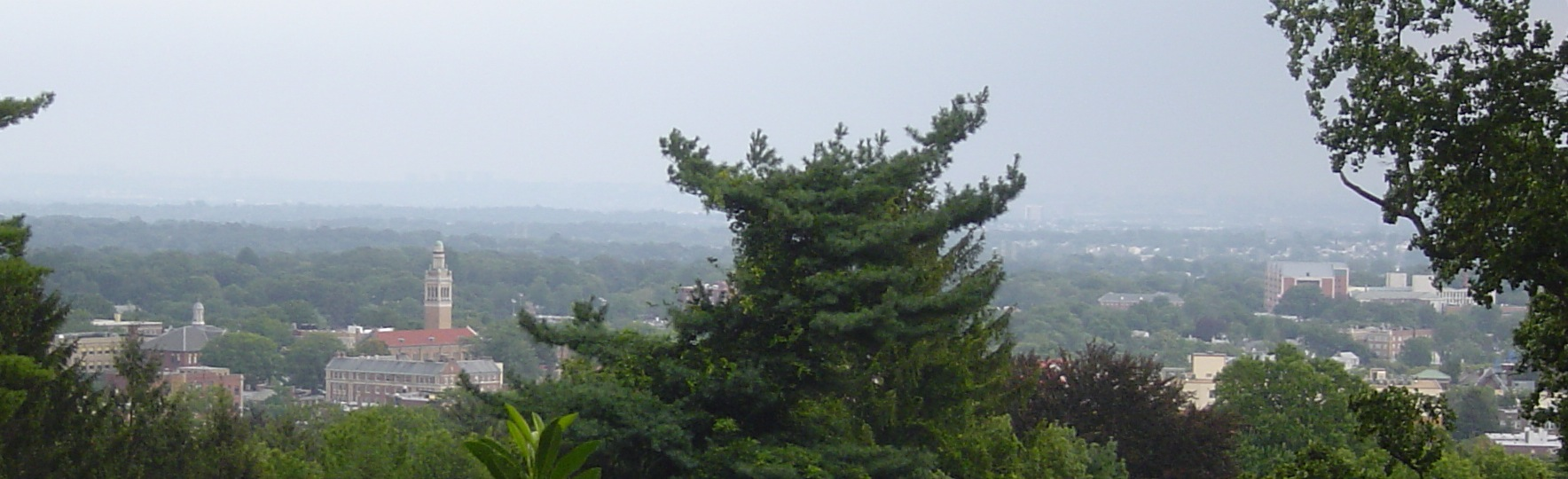 A panoramic view of Montclair, New Jersey